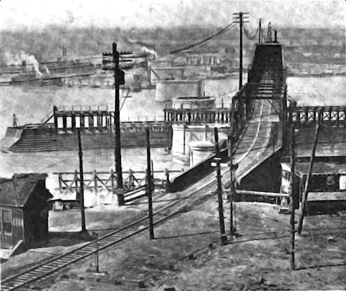 Building of the new Hannibal Bridge 1916, the old bridge from 1869 on the left side